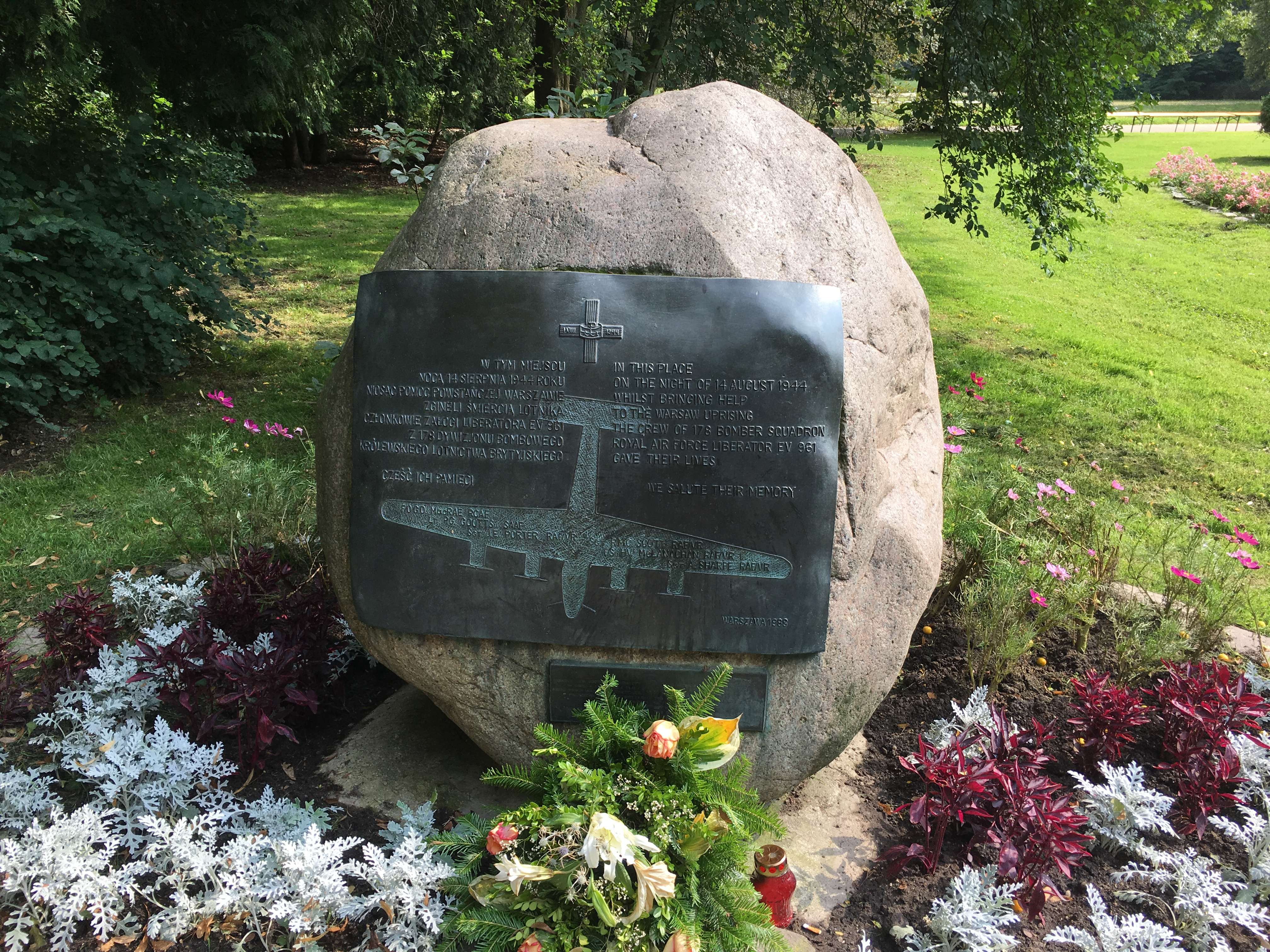 Monument of the British RAF Liberator crew, in Skaryszewski Park, Warsaw, Poland